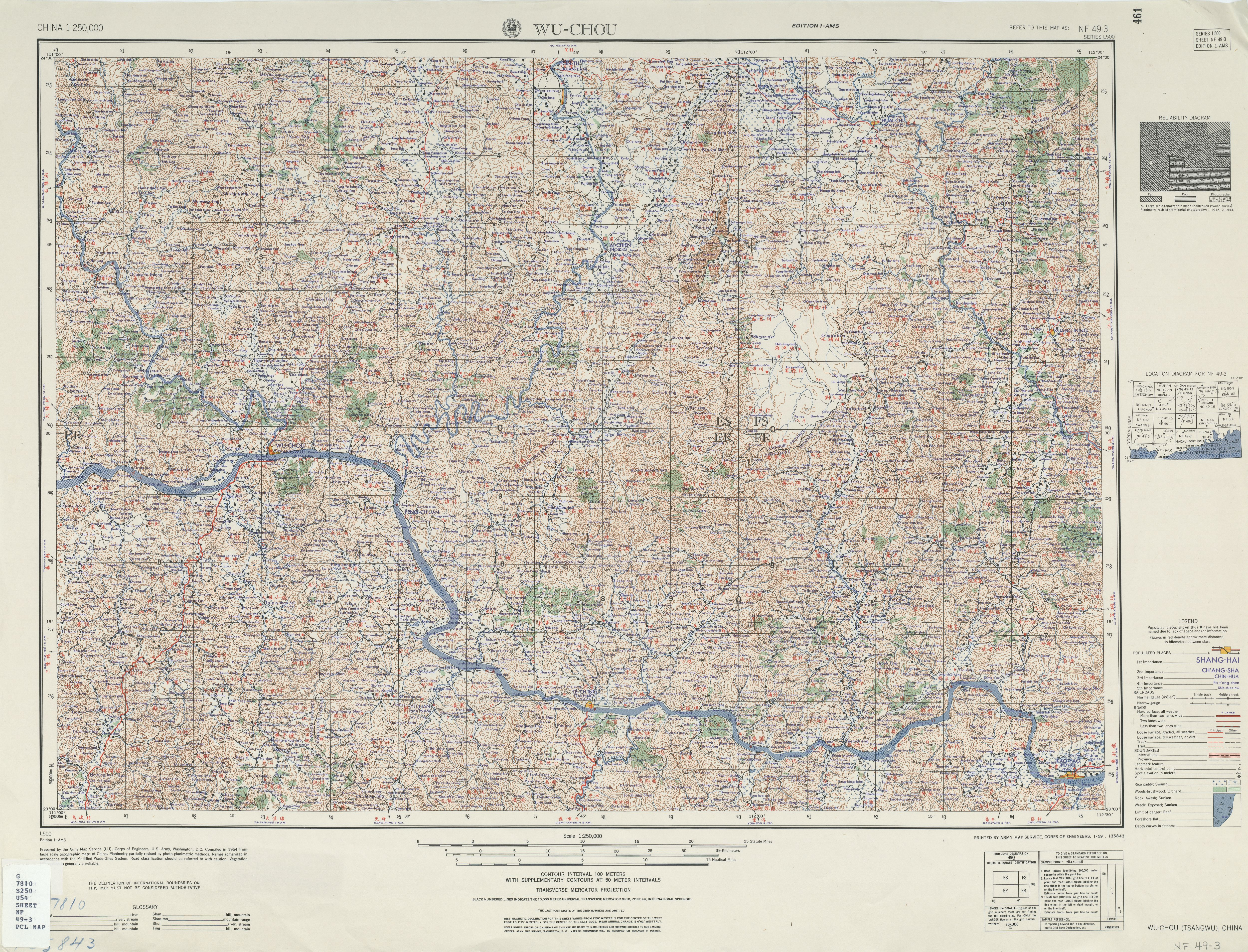 China AMS Topographic Maps